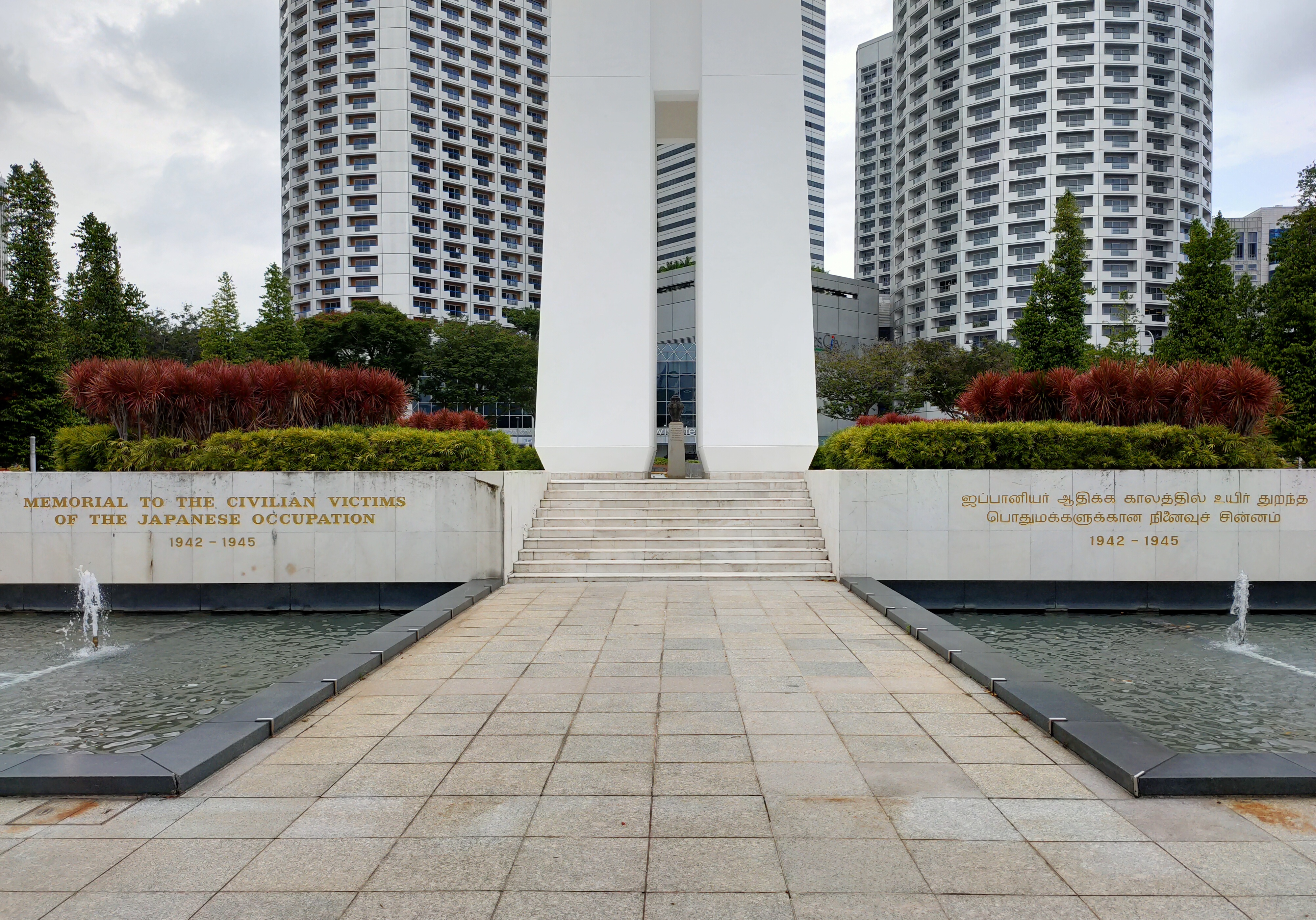 Taken in 2019, at the bottom of the Civilian War Memorial with Oppo Reno 2